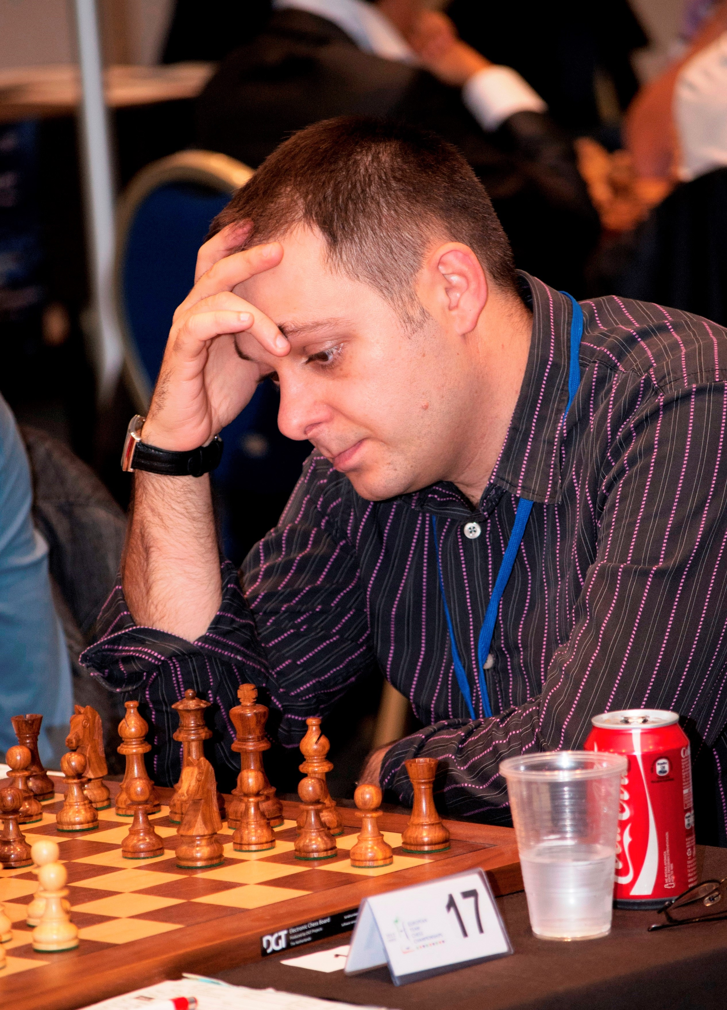 GM Vladimir Georgiev, Porto Carras EchT 2011.